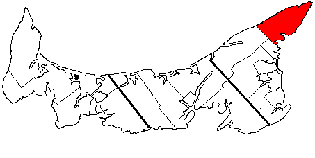 Adapted from existing Prince Edward Island election results maps to depict a specific electoral district.